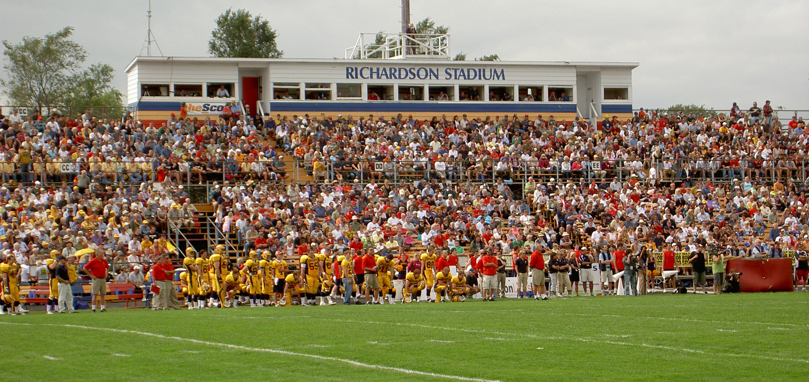 Alumni side of Richardson Memorial Stadium